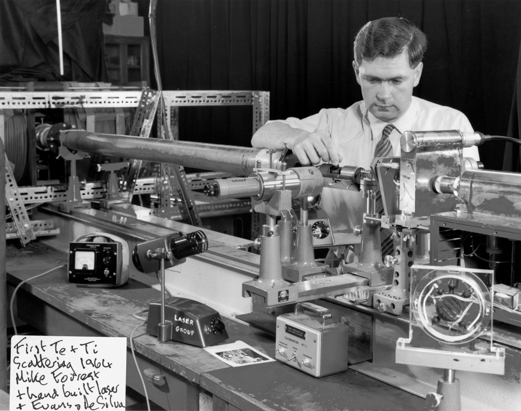 Mike Forest operates a hand-built laser that is part of a Thompson scattering system, demonstrated in Nature in 1964. A similar system was later used to measure temperatures in ZETA reactor. It was later be used to test the tokamak devices in Novosibirsk and prove they were meeting the performance numbers the Soviet scientists were claiming.